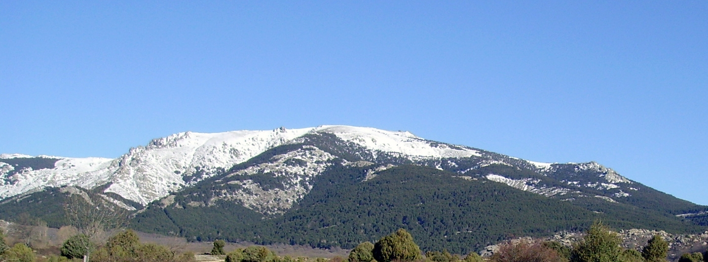 South face of La Najarra (Guadarrama mountain range, central Spain).